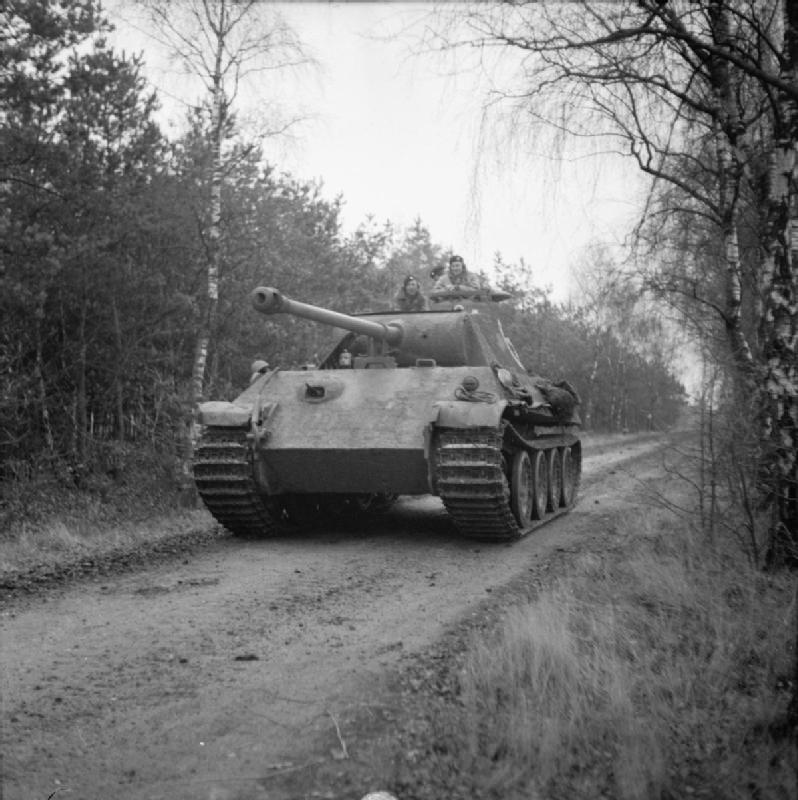 The British Army in North-west Europe 1944-45 A captured German PzKpfw V Panther tank, now in use by 4th Coldstream Guards, 6th Guards Tank Brigade, 29 November 1944.